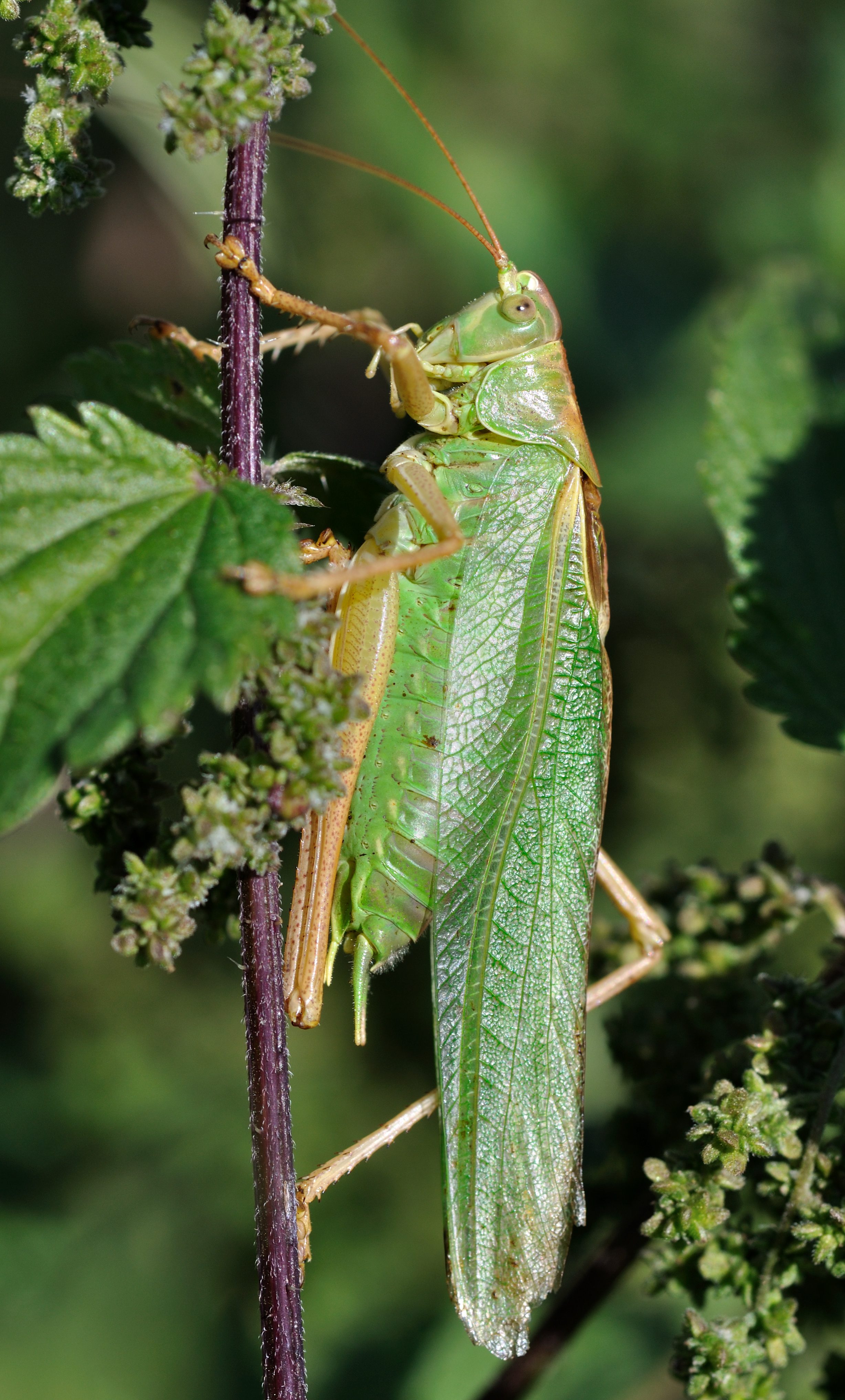 Male Great Green Bush-cricket (Tettigonia viridissima) in Oberursel, Germany.